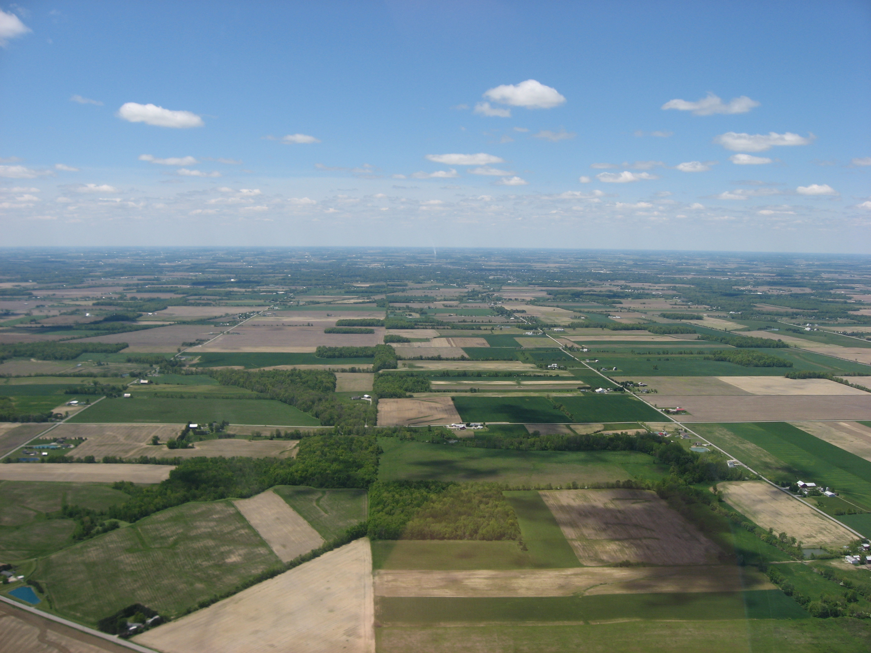 Aerial view of southwestern Scipio Township, Seneca County, Ohio, United States, just southwest of Republic. Picture taken from a Diamond Eclipse light airplane at an altitude of 2,500 feet MSL and a bearing of approximately 270º. Diagonal road in bottom left corner is State Route 67.